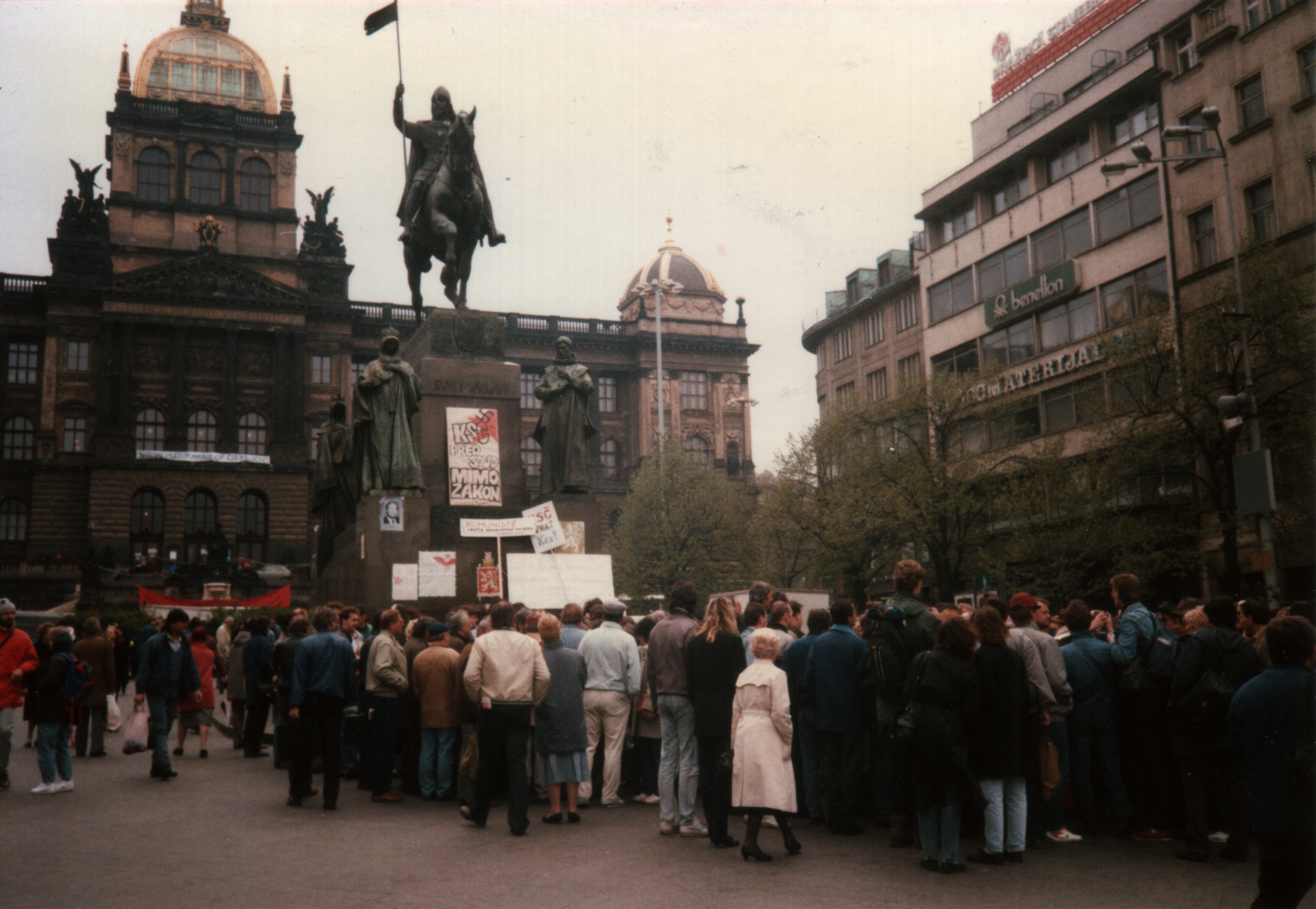 A political demonstration on Václavské náměstí, Prague in mid April 1990